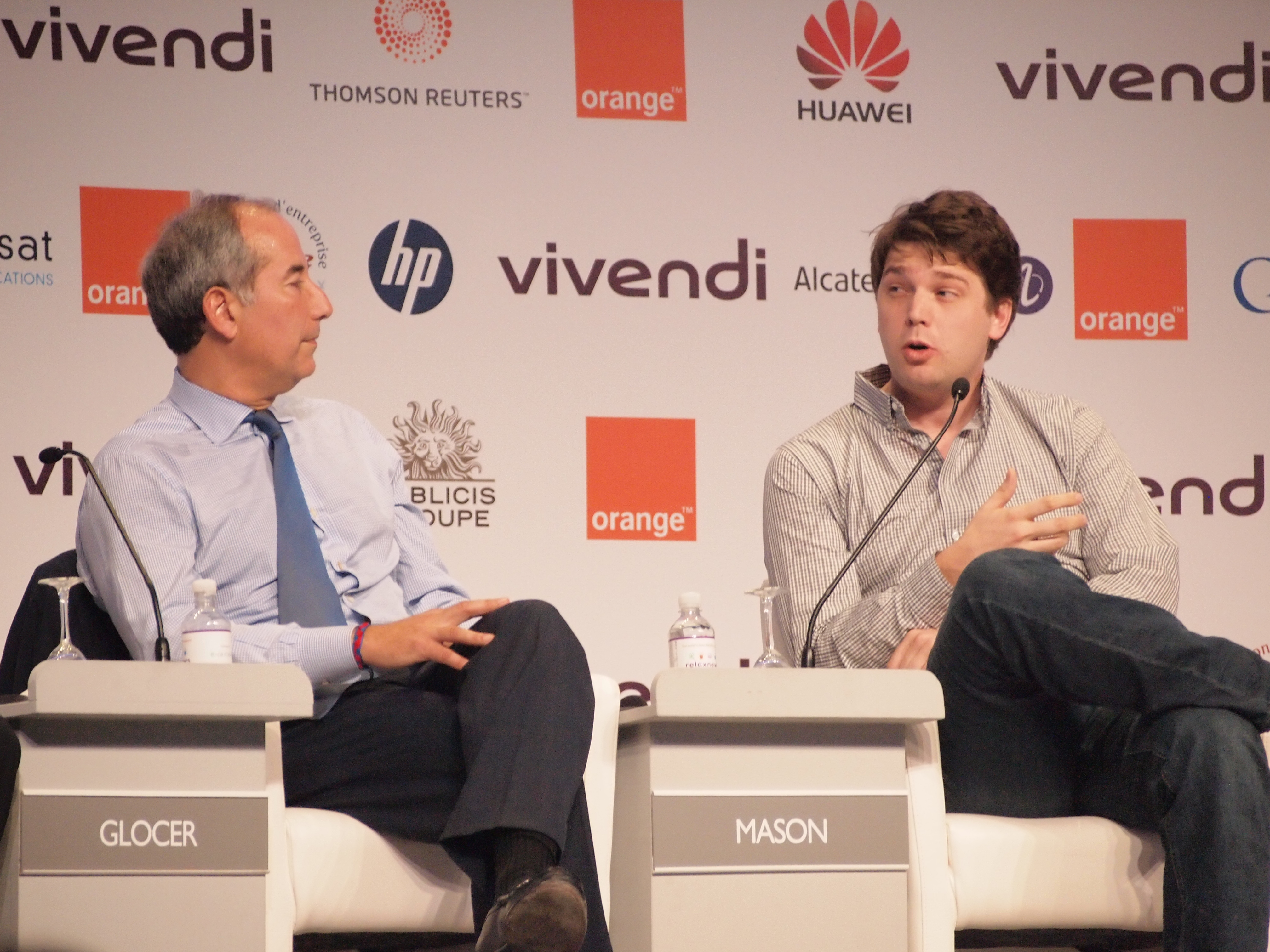 homson Reuters CEO Tom Glocer and CEO of Groupon Andrew Mason at a plenary at the E-G8 Forum in Paris.